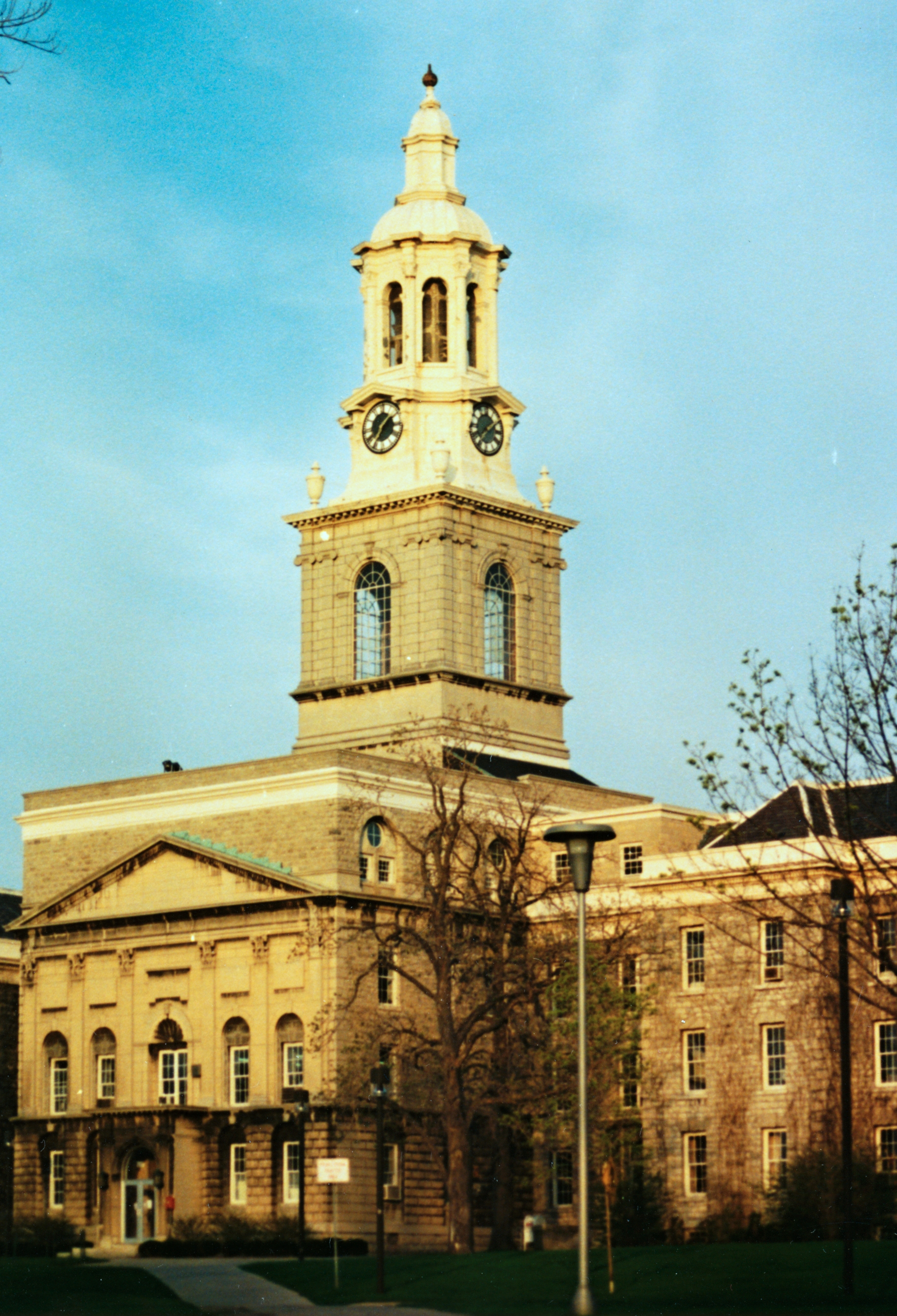 Date of photography: unknown. Photographer: Y. G. Lulat